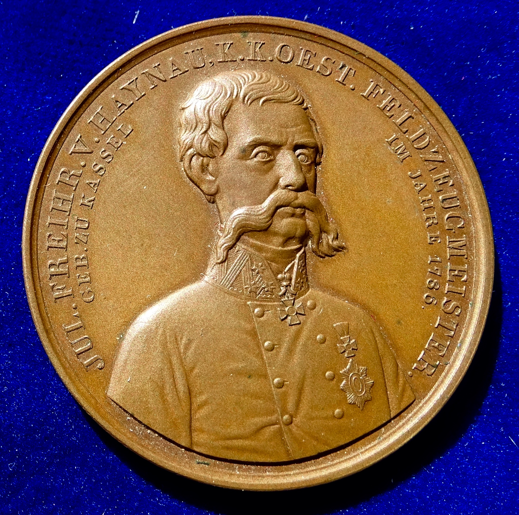 Julius von Haynau Austrian General against the Hungarian Revolt 1849 (ND) Medal. Bronze medallion d. = 41 mm. Scarce in bronze. Julius Jacob von Haynau, 1786 Kassel, Hesse-Kassel - 1853 Vienna Born in Kassel, von Haynau was the illegitimate son of Rosa Dorothea Ritter, and William I (1743-1821), the landgrave (later elector) of Hesse-Kassel. His father acknowledged this natural son, providing for his education and entry into the military officer corps as a cadet. Later in the Austrian army von Haynau was prominent in suppressing insurrectionary movements in Italy and Hungary in 1848 and later. While a hugely effective military leader, he also gained renown as an aggressive and ruthless commander. His soldiers called him the "Habsburg Tiger"; those opponents who suffered from his brutality called him the "Hyena of Brescia" and the "Hangman of Arad." Uniformed portrait r., curved above in 2 lines: "JUL. FREIHERR V. HAYNAU, K.K. OEST. FELDZEUGMEISTER. GEB. ZU KASSEL IM JAHRE 1786." / Military symbols surrounded by "FÜR KAISER UND GESETZ, DURCH BEHARRLICHKEIT ZUM SIEGE." Wurzbach 3616 (Sn). Artist: (Gottfried Drentwett), 1817 - 1871 Augsburg, Bavaria Condition: UNCIRCULATED